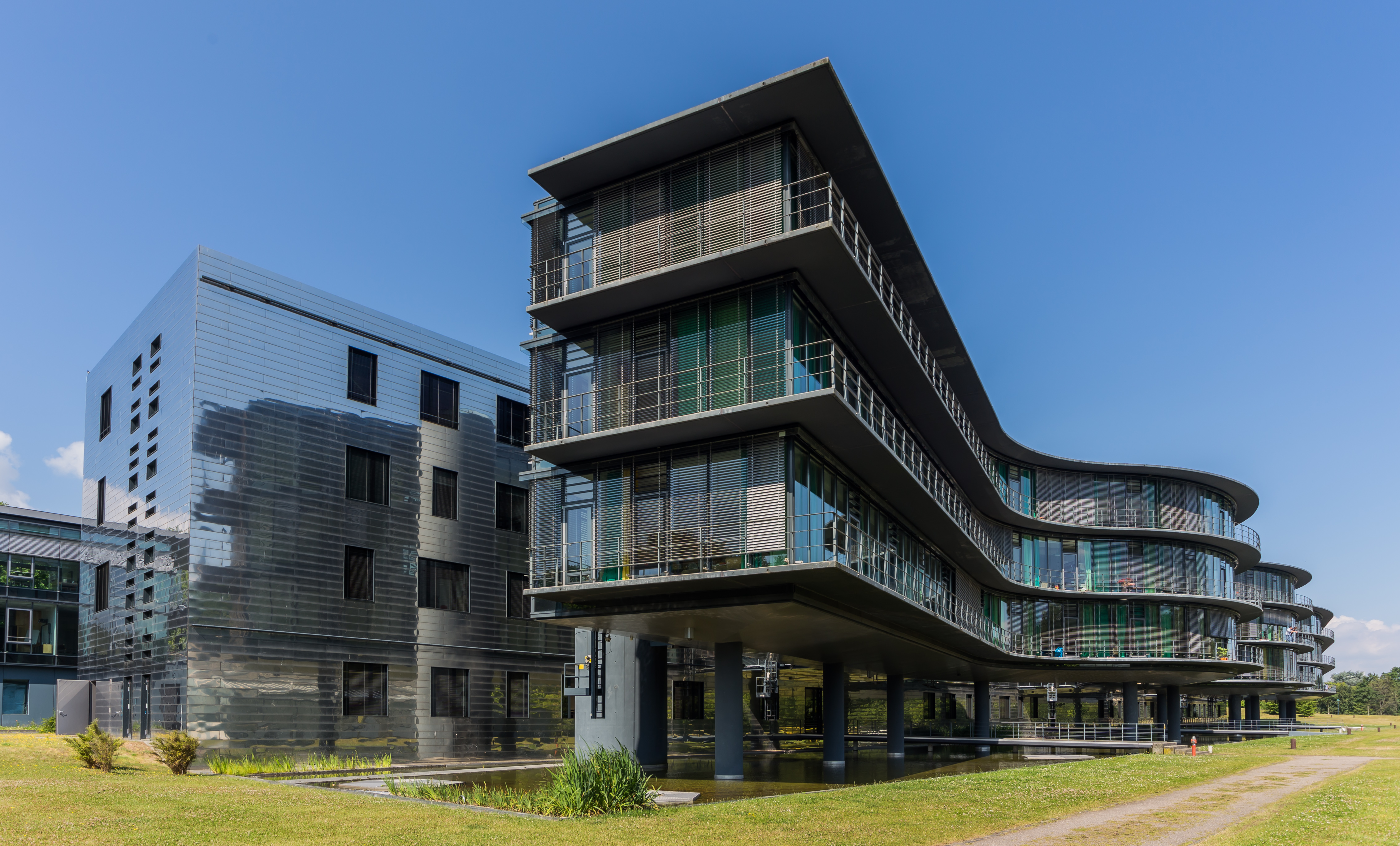 Research center caesar, Ludwig-Erhard-Allee 2, Bonn-Hochkreuz: viewing direction west